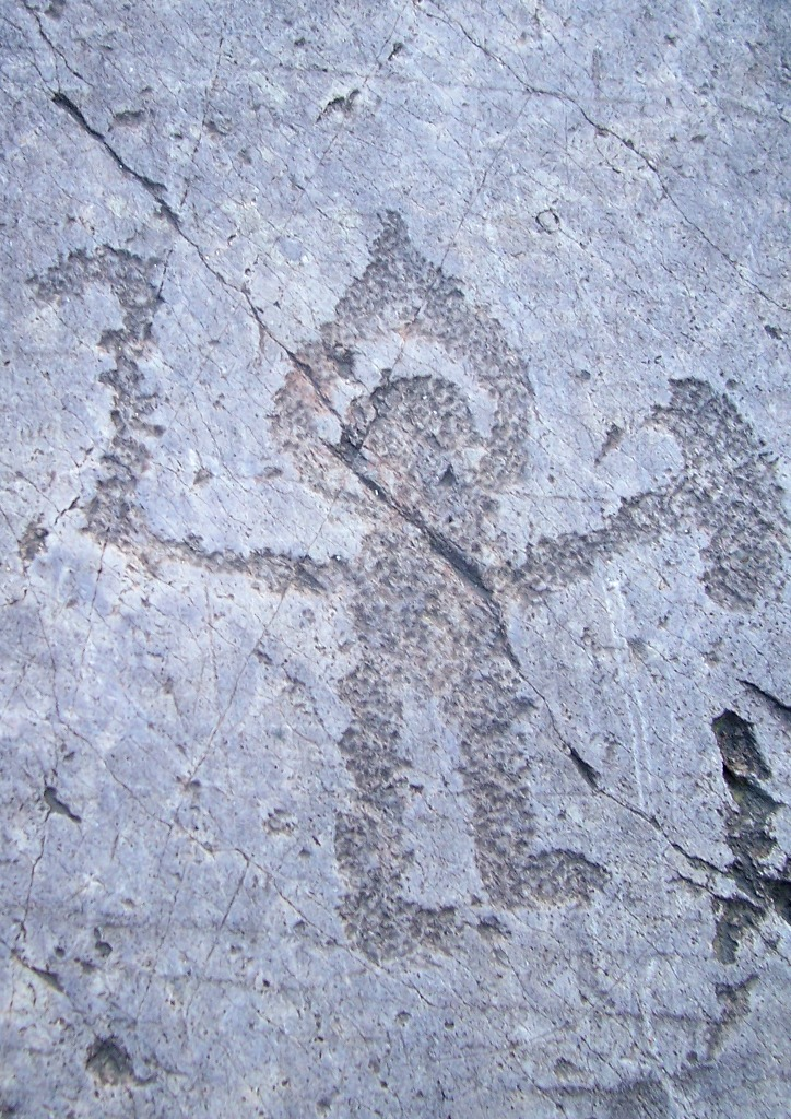 Armed with helm and axe. R. 12, Parco archeologico comunale di Seradina-Bedolina. Capo di Ponte, Val Camonica